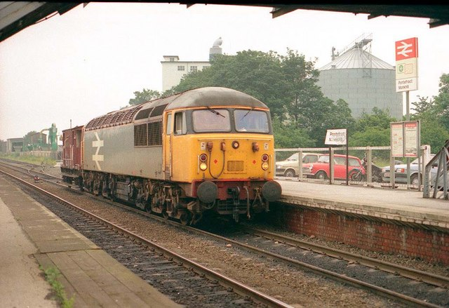 Pontefract Monkhill Station 56 007 + guards van passing Pontefract Monkhill station.